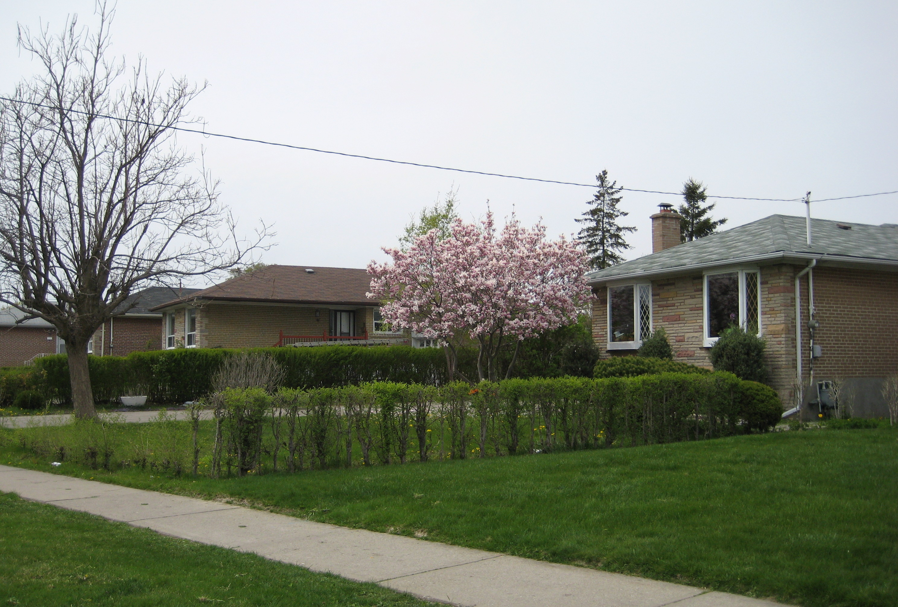 houses in Rexdale